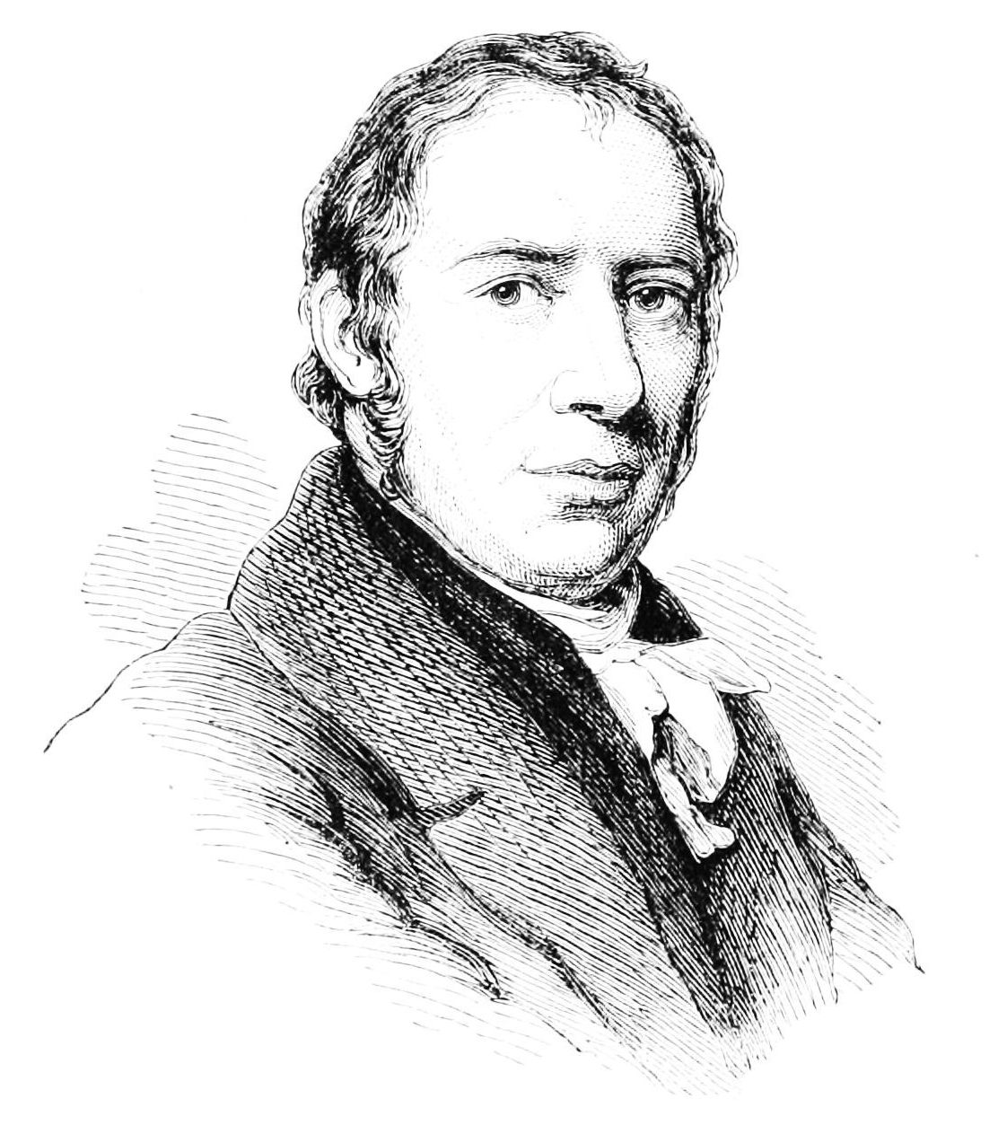 Richard Trevitchick